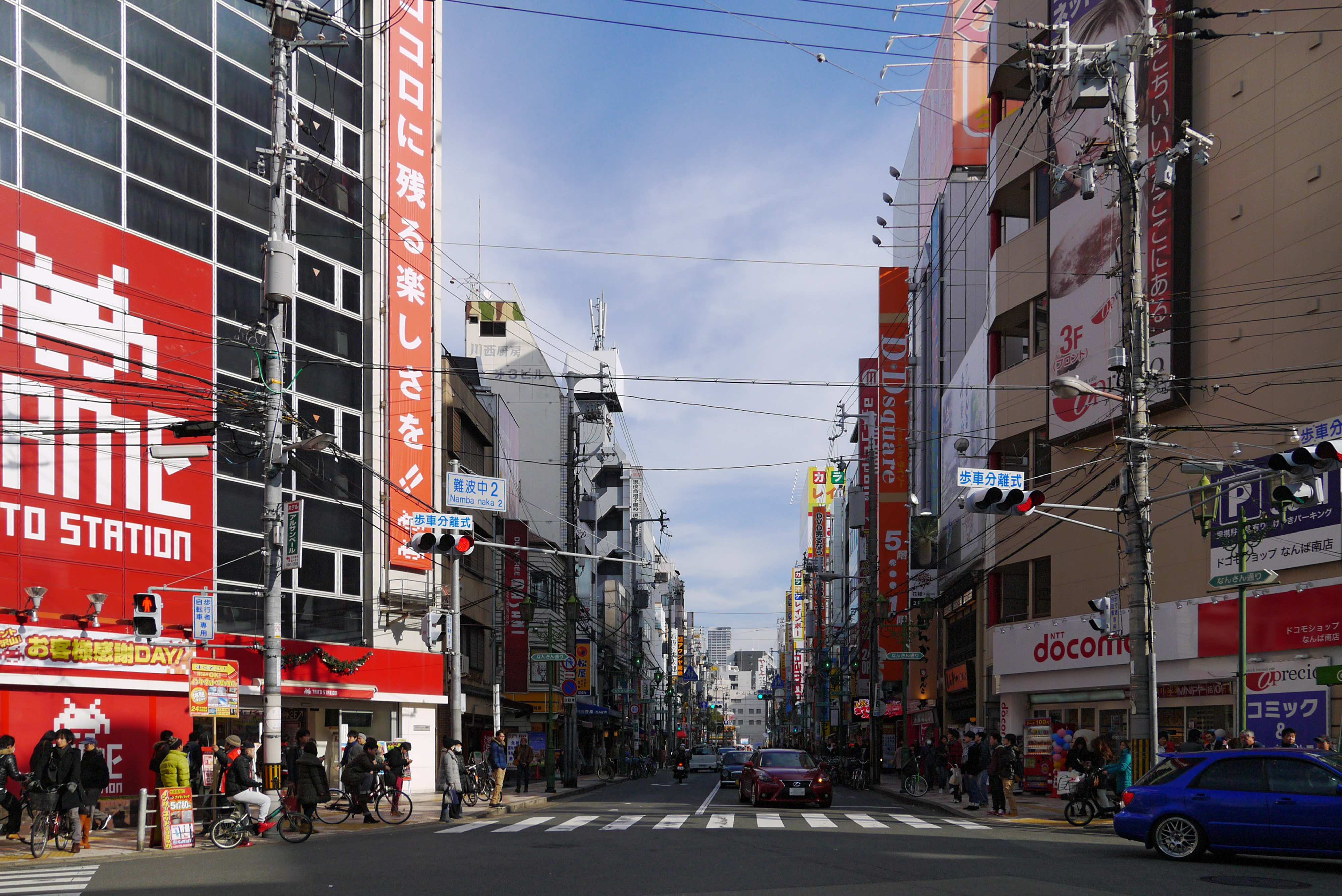 Nipponnbashi (日本橋 (大阪市)), Osaka, Osaka prefecture, Japan